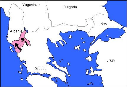 Author Mike Young